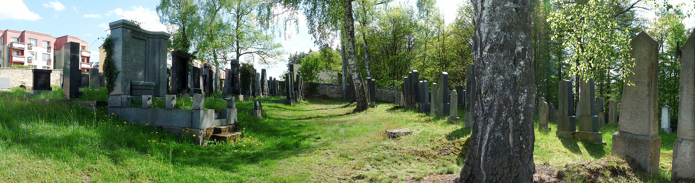 Jewish cemetery in the town of Jindřichův Hradec, South Bohemian Region, Czech Republic